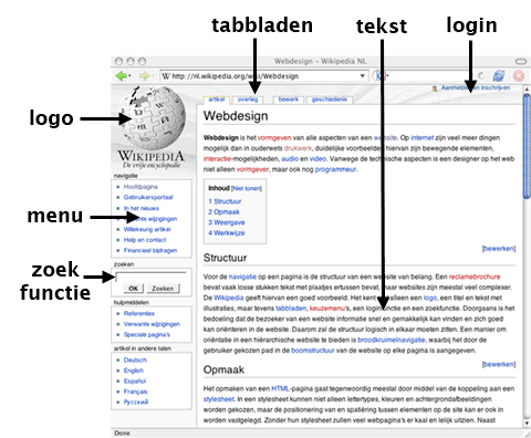 Screenshot of the Dutch Wikipedia article "Webdesign", with elements labelled.